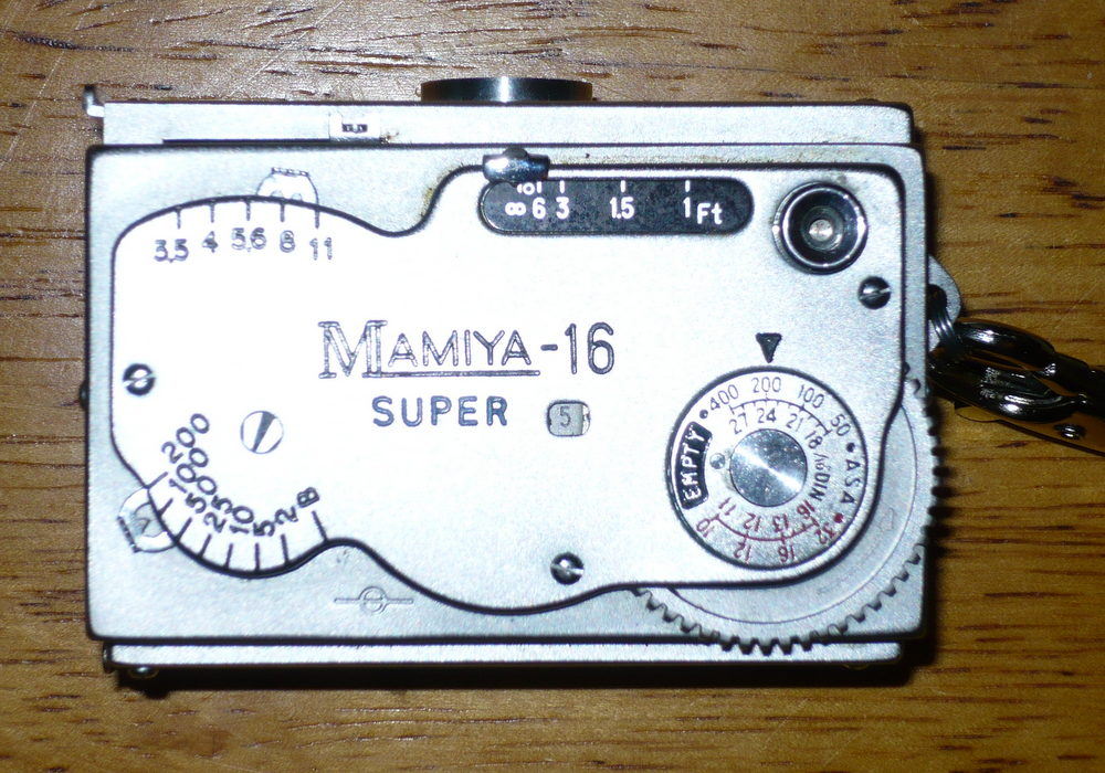 Mamiya 16 Super